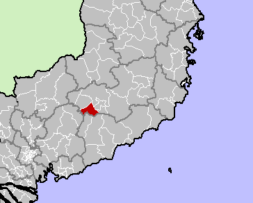 Da Huoai District, Lam Dong Province, Vietnam.